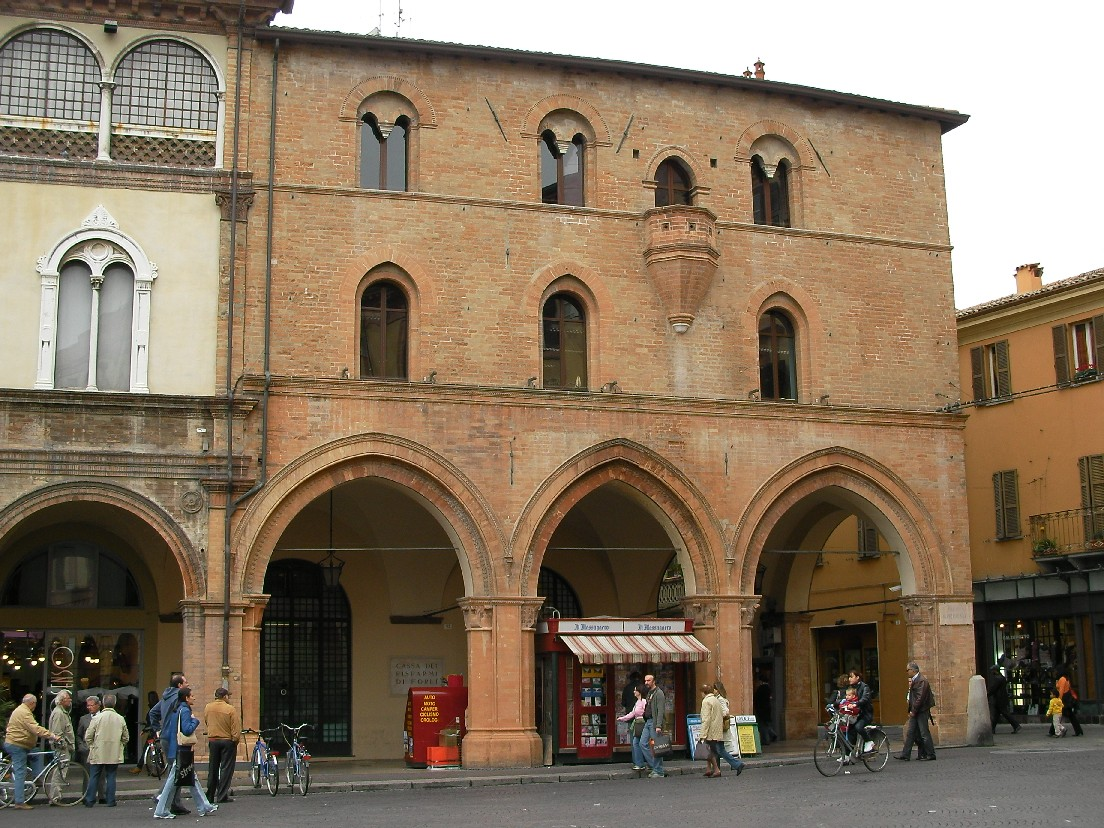 The Palace of Podestà of Forlì